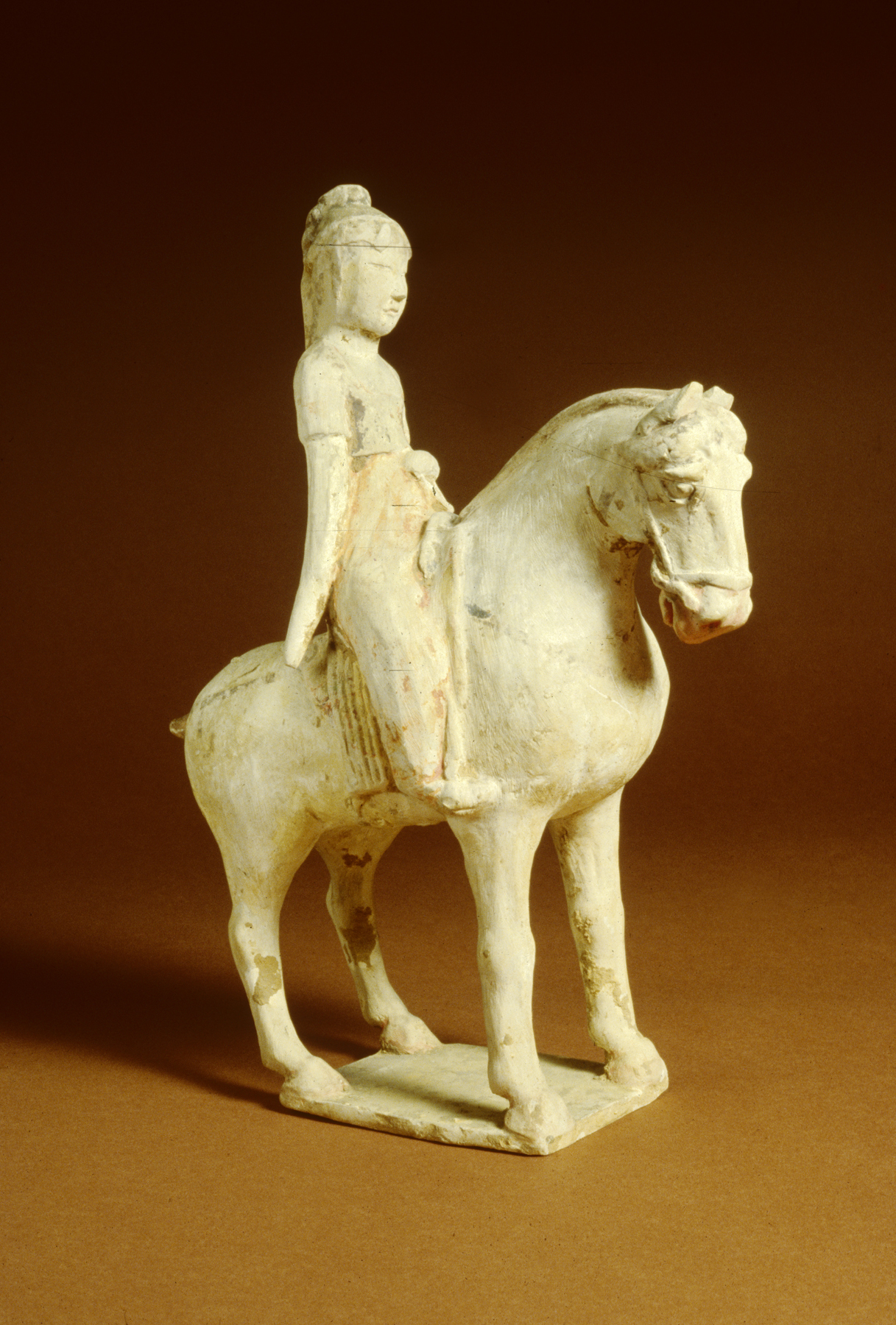 Tomb sculptures of female figures are quite common. Some are engaged in domestic activities, others appear as entertainers, athletes, or even Chinese polo players.